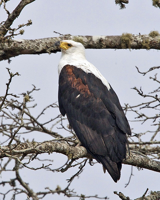 African Fish Eagle Haliaeetus vocifer, Akagera National Park, Rwanda